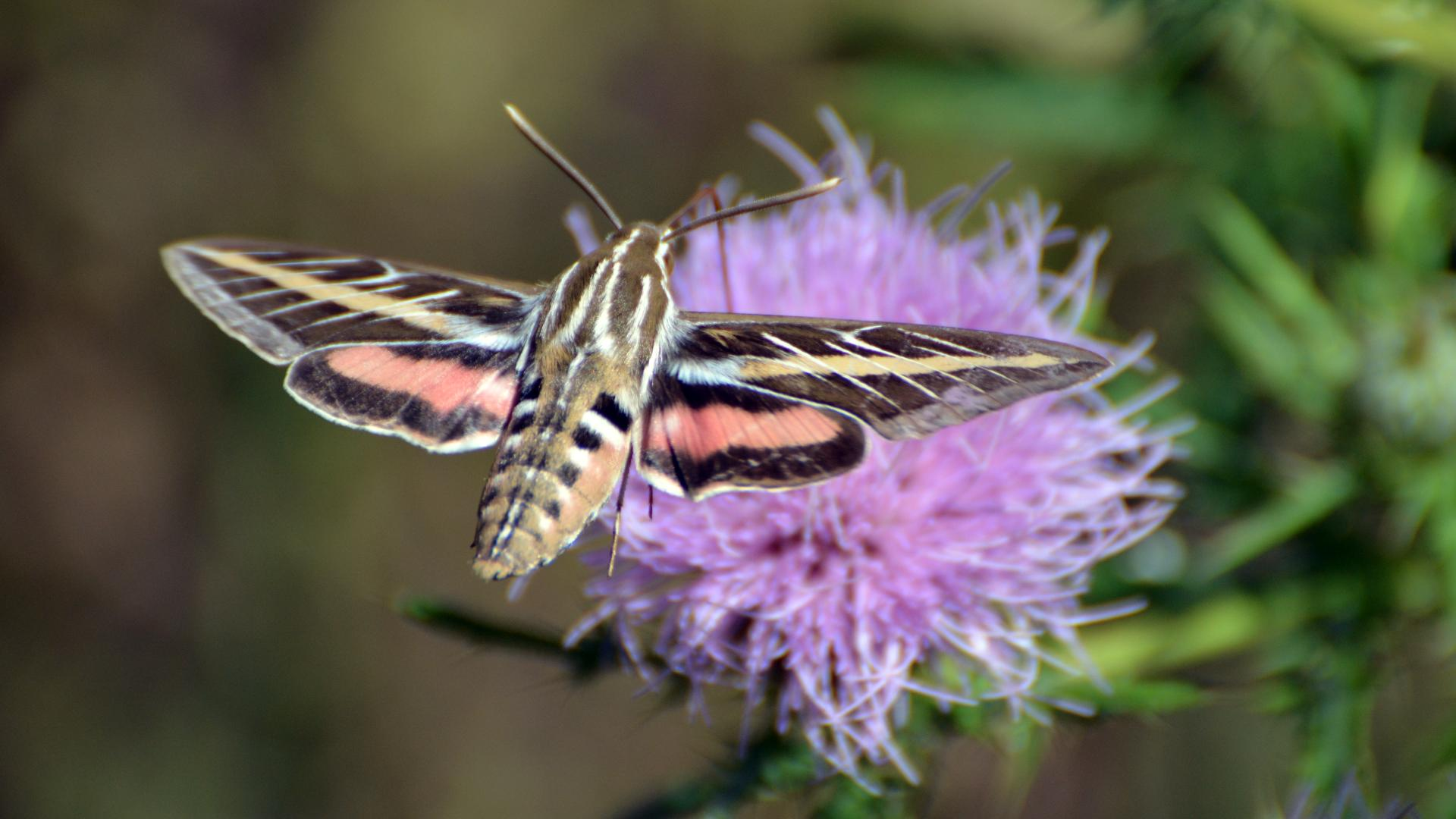 Young Conservation Area on 9/14/13